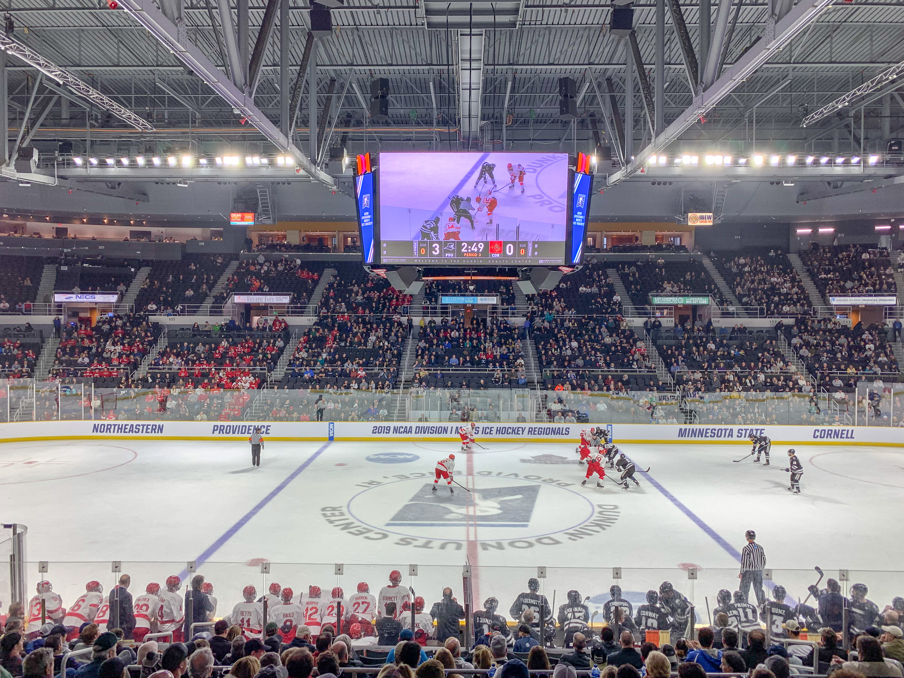 Providence College hockey Friars beat Cornell, 4-0, in the NCAA Hockey East Regional at the Dunkin’ Donuts Center, Povidence, Rhode Island.